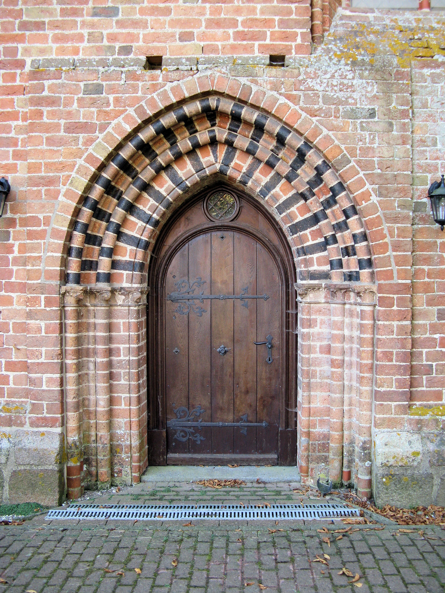 Church in Wattmannshagen, disctrict Güstrow, Mecklenburg-Vorpommern, Germany